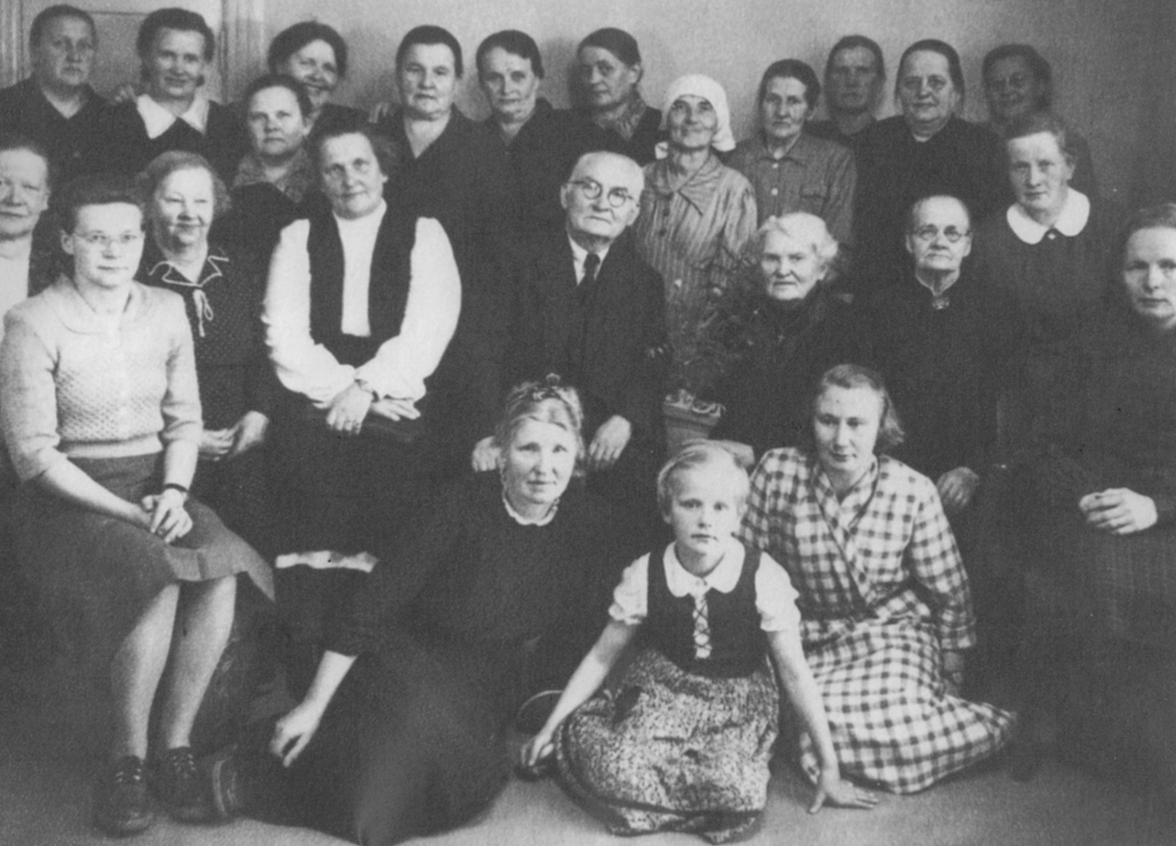 Photograph of a "missionary sewing" meeting held in Viitasaari, Finland, in early 1952. In the middle, sitting, the priest Matti Jaakkola (1879–1955).